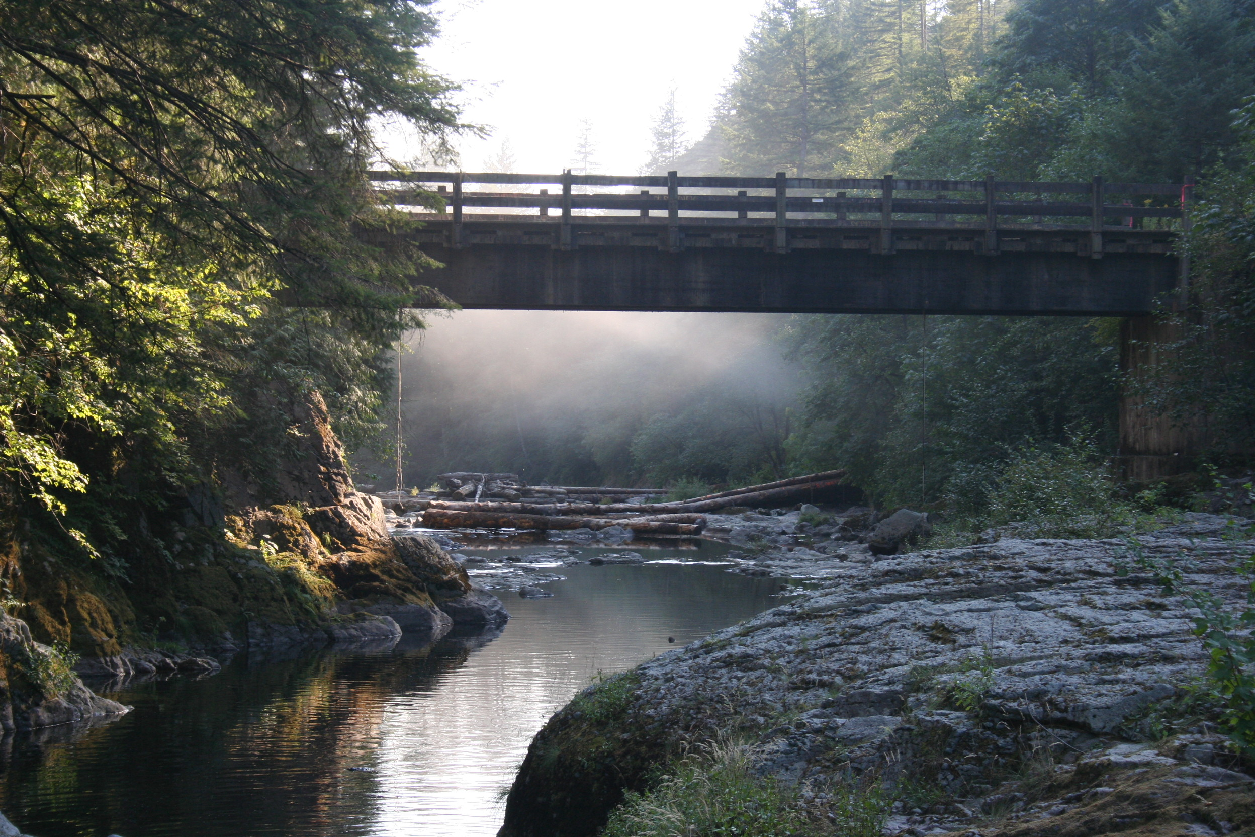 Bridge over the Washougal River in Washington State